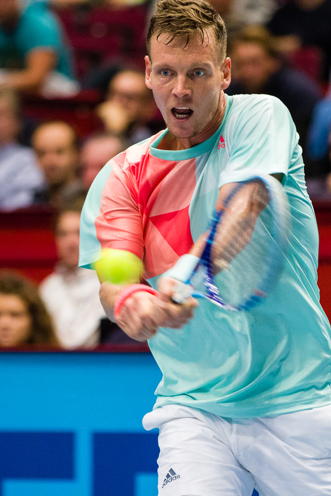 Tomas Berdych (CZE) vs. Nikoloz Basilashvili (GEO) 1st round at Erste Bank Open ATP World Tour 500 in Vienna 24.10.2016